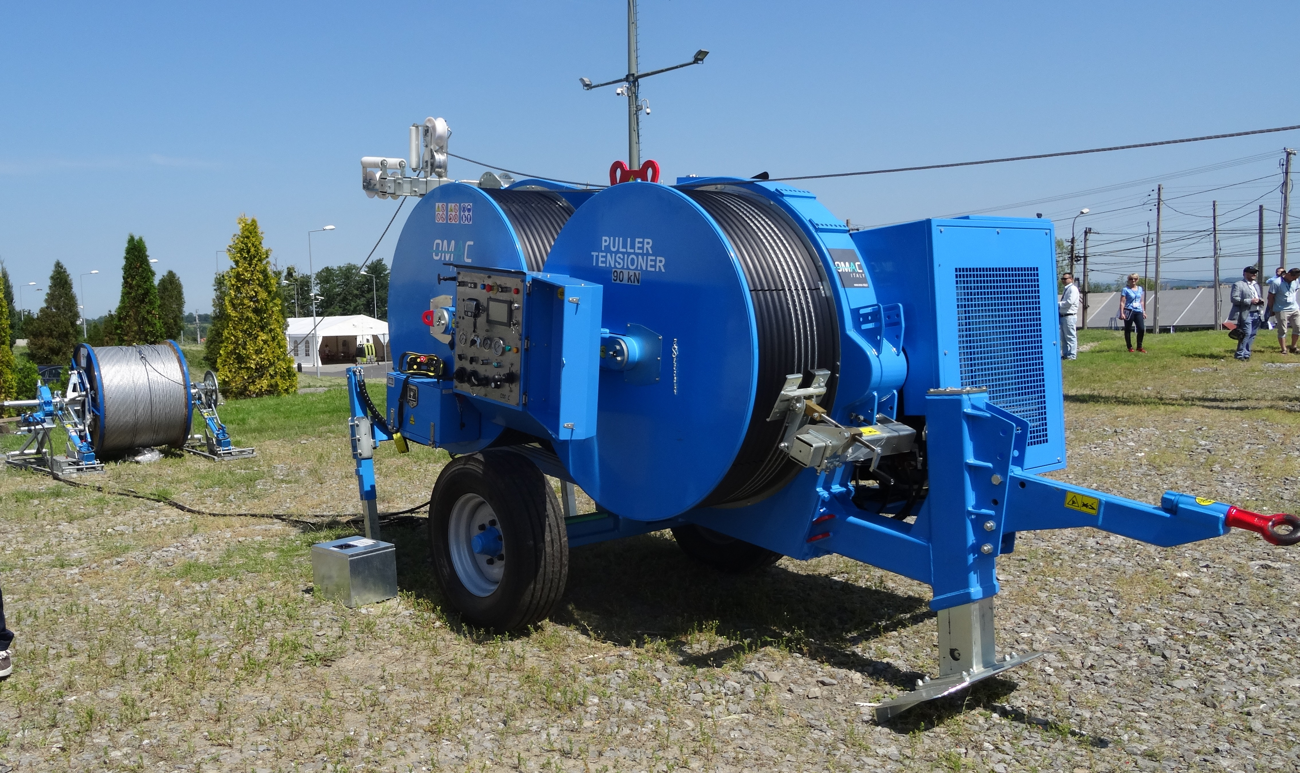 OMAC 90 kN puller-tensioner for stringing of overhead power lines